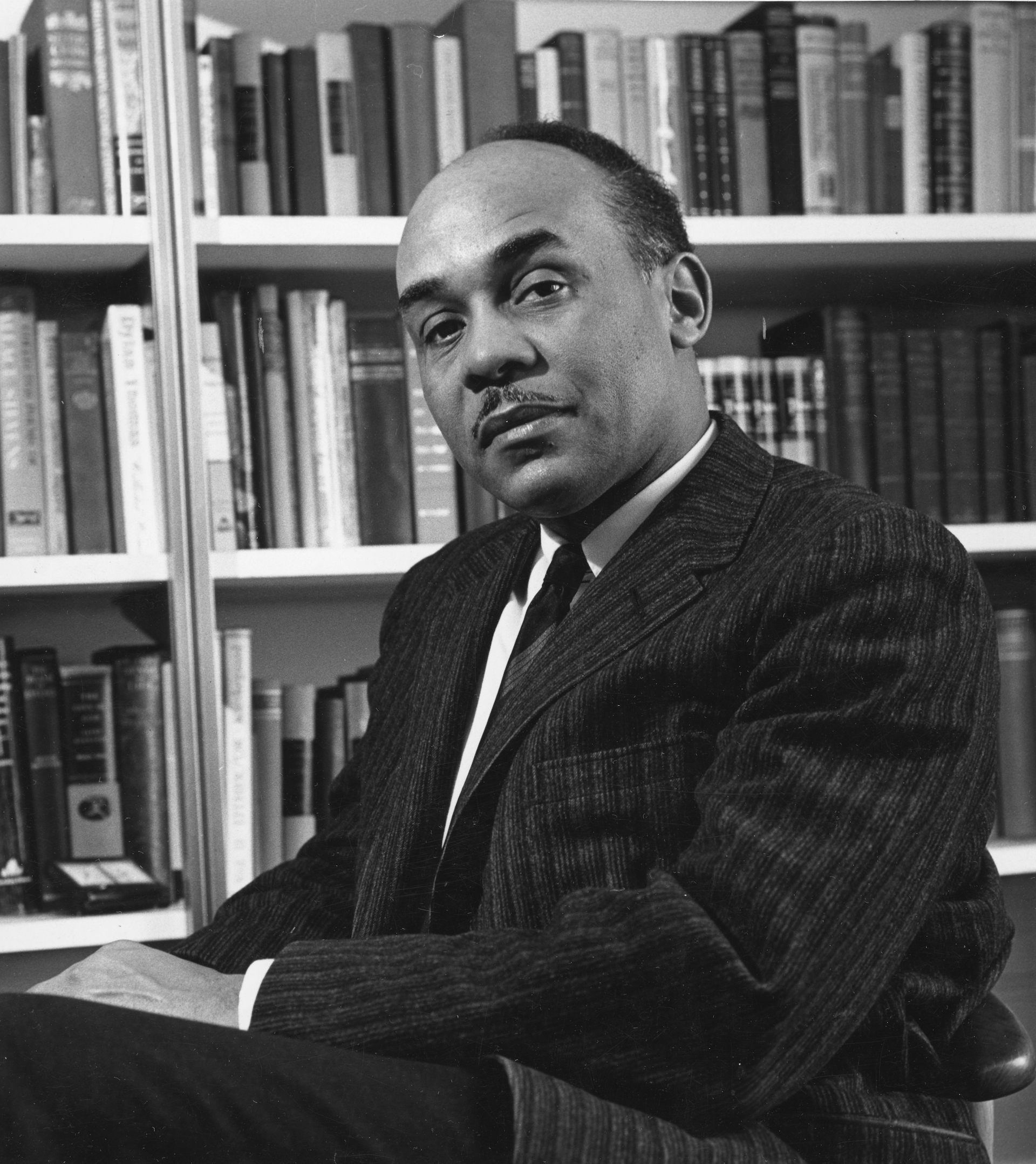 Ralph Ellison, noted author and professor.